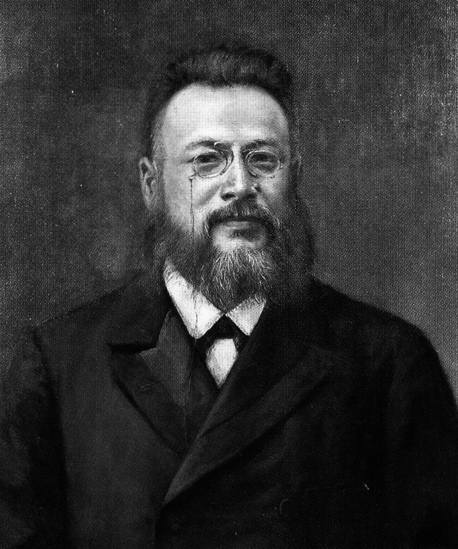 Kitao Jirō's portrait